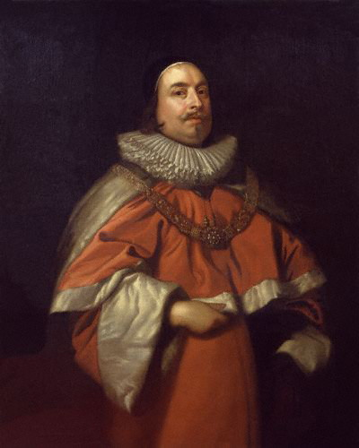 possibly after Anthony Van Dyck. Oil on canvas. 49 1/2 in. x 39 1/2 in. Courtesy of the National Portrait Gallery, London.